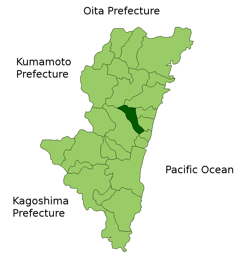 Location Map of Kijo in Miyazaki Prefecture, Japan